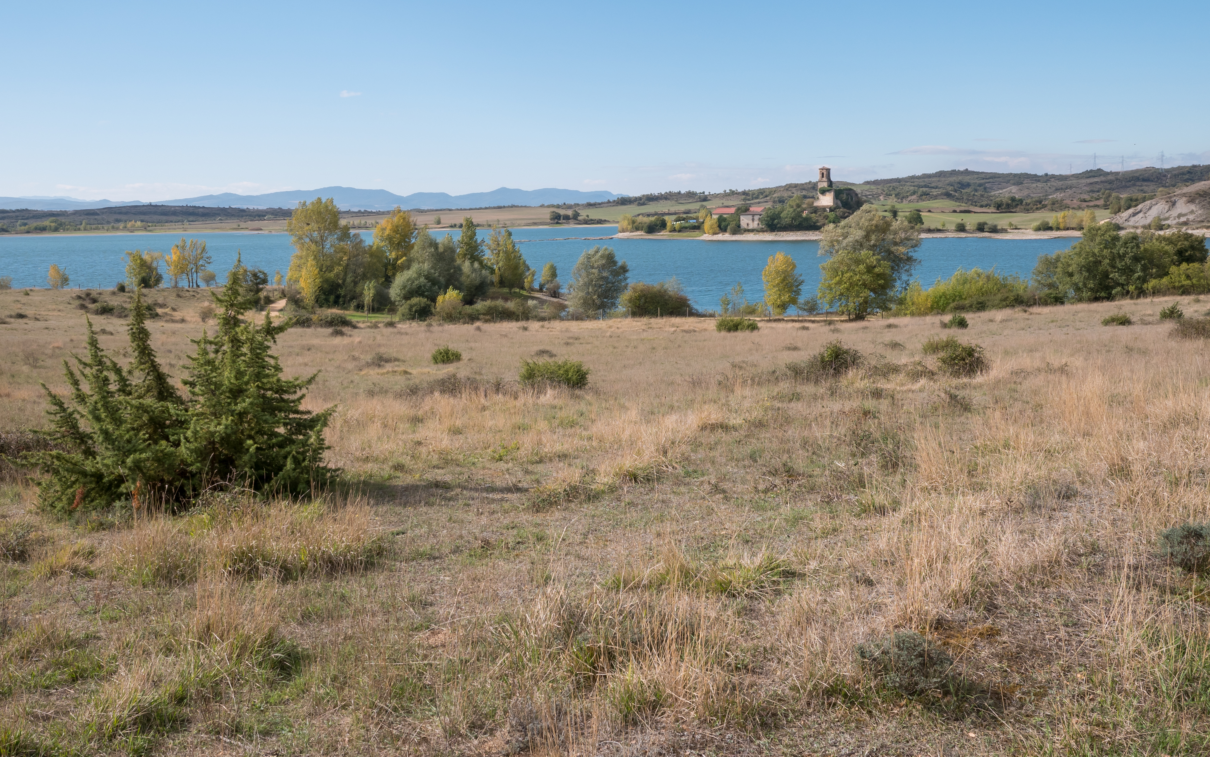 Shrubland landscape at the Ullíbarri-Gamboa reservoir, view in direction of Azua. Álava, Basque Country, Spain